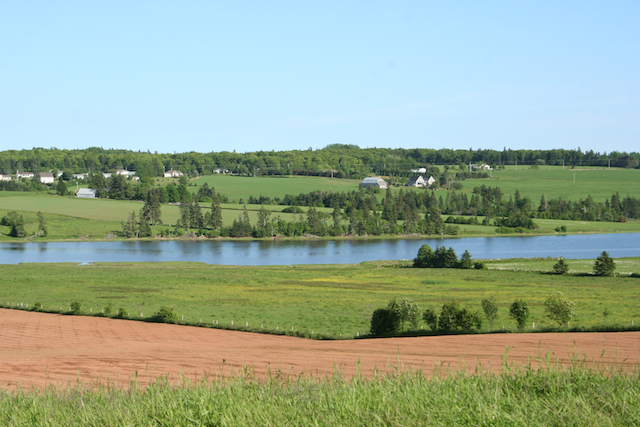 View of the river in June